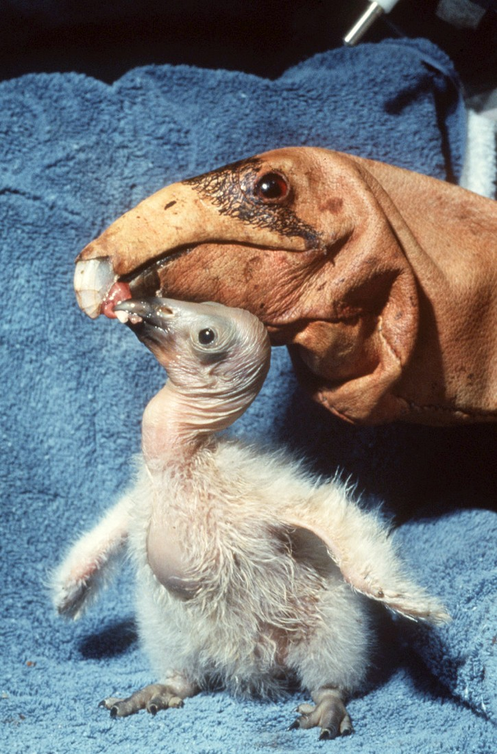 Description: California Condor Chick * Creator:San Diego Zoo, Ron Garrison * URL: Fish and Wildlife Service